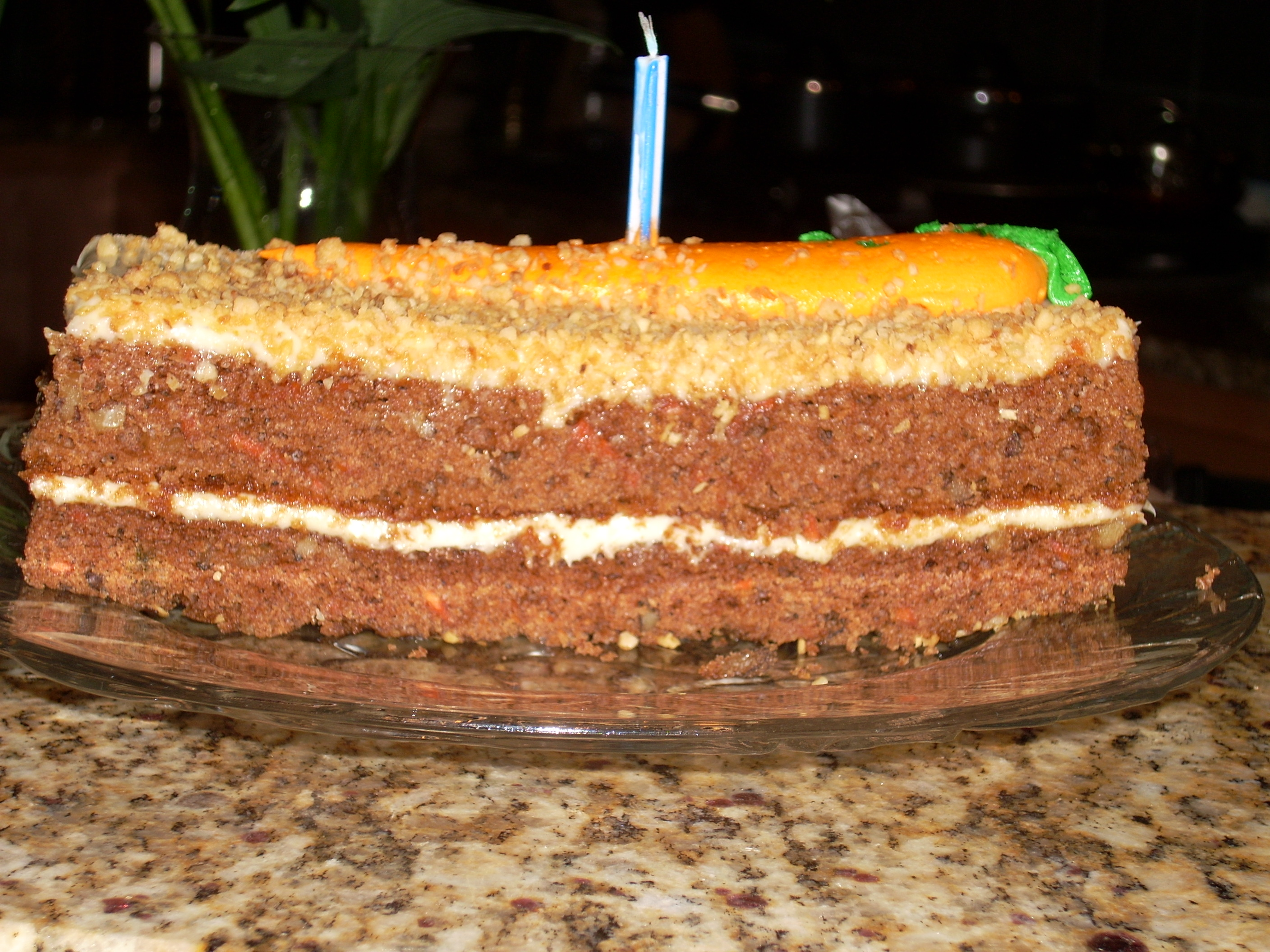 A store bought carrot cake with icing and a birthday candle